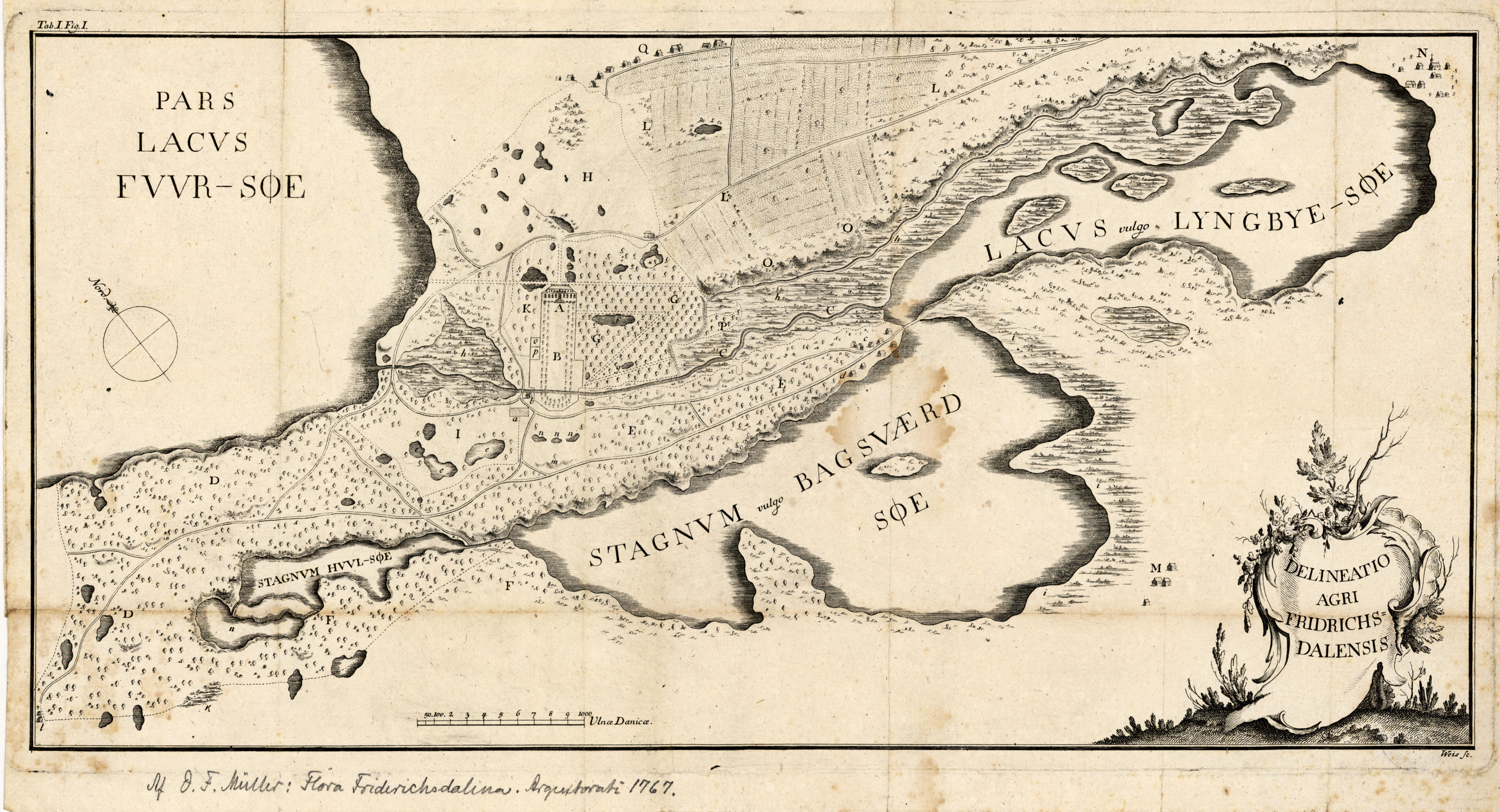 Delineatio Agri Fridrichsdalensis, map of the "Ny Frederiksdal area north of Copenhagen, Denmark